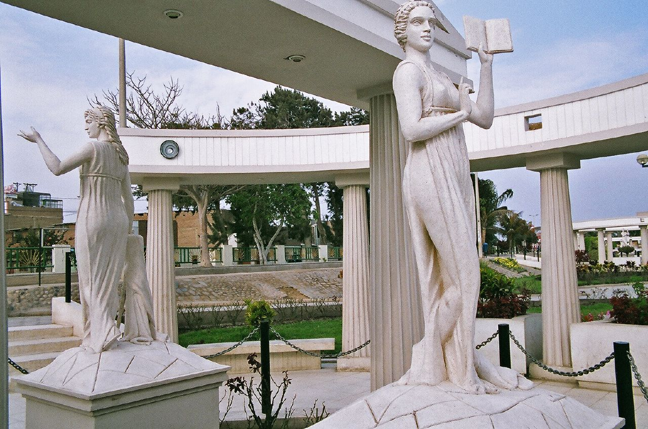 A photograph of the Parque de las Musas (Park of the Muses), in Chiclayo, Lambayeque, Peru